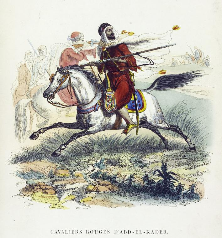 Red Riders of Abd El Kader. Gravure. Algerian Cavalry in the time of emir abdelkader (Algerian resistance.)